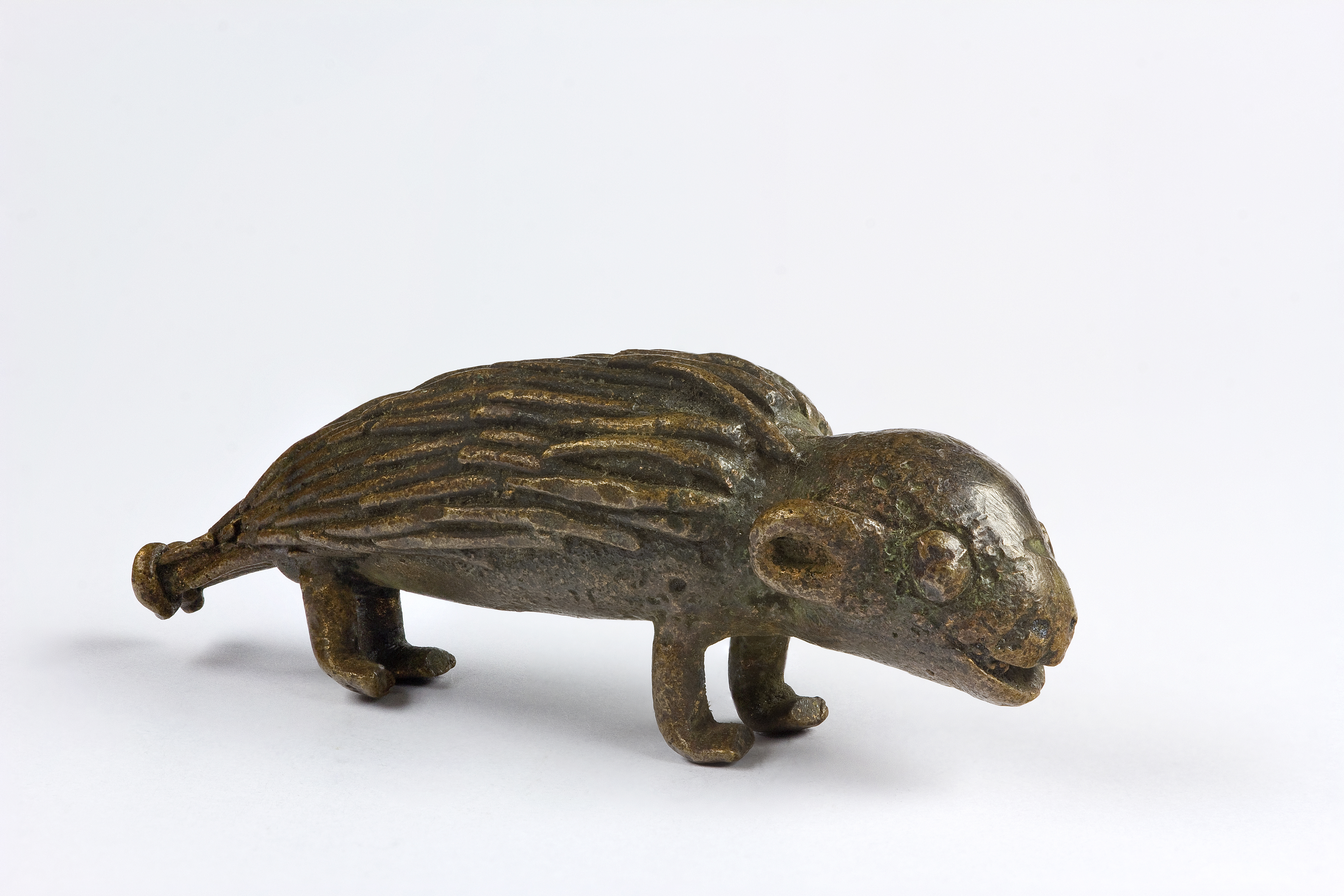 Figurative weight Porcupine size : 2,2 x 5,9 x 1,8 cm mass : 60,9 g material : Brass technique : Lost-wax casting